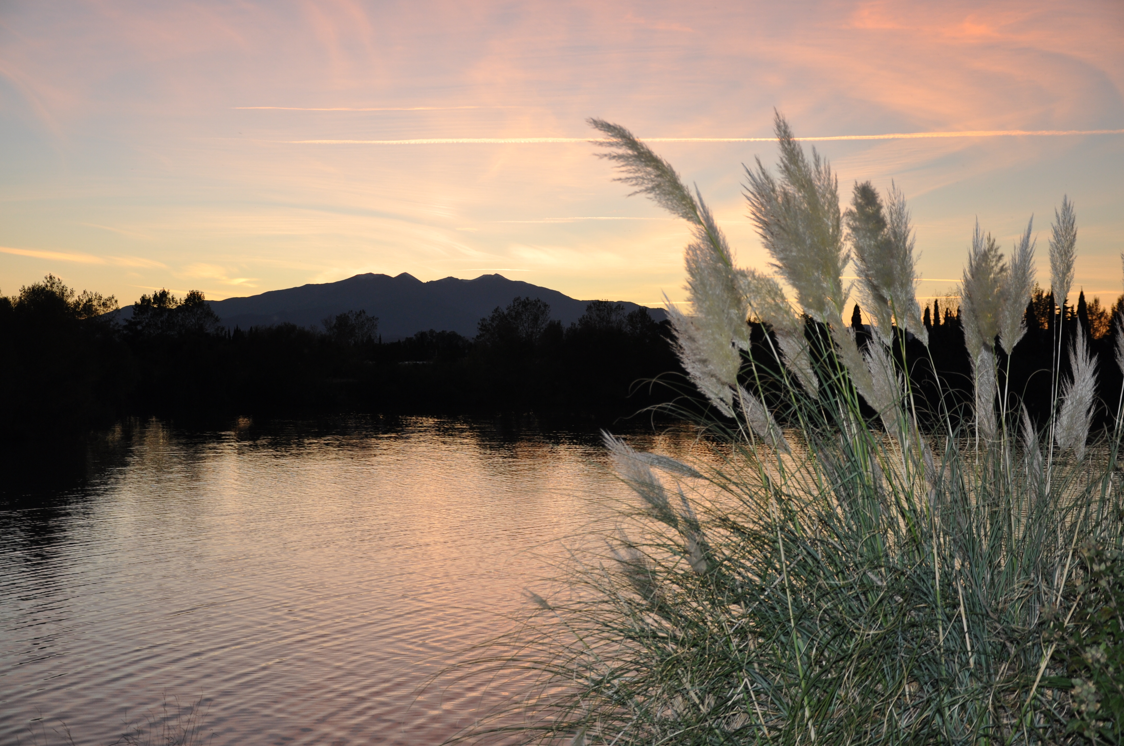 Lake Sant Marti at Palau-del-Vidre, France, Mount Canigou in the background (view from E).